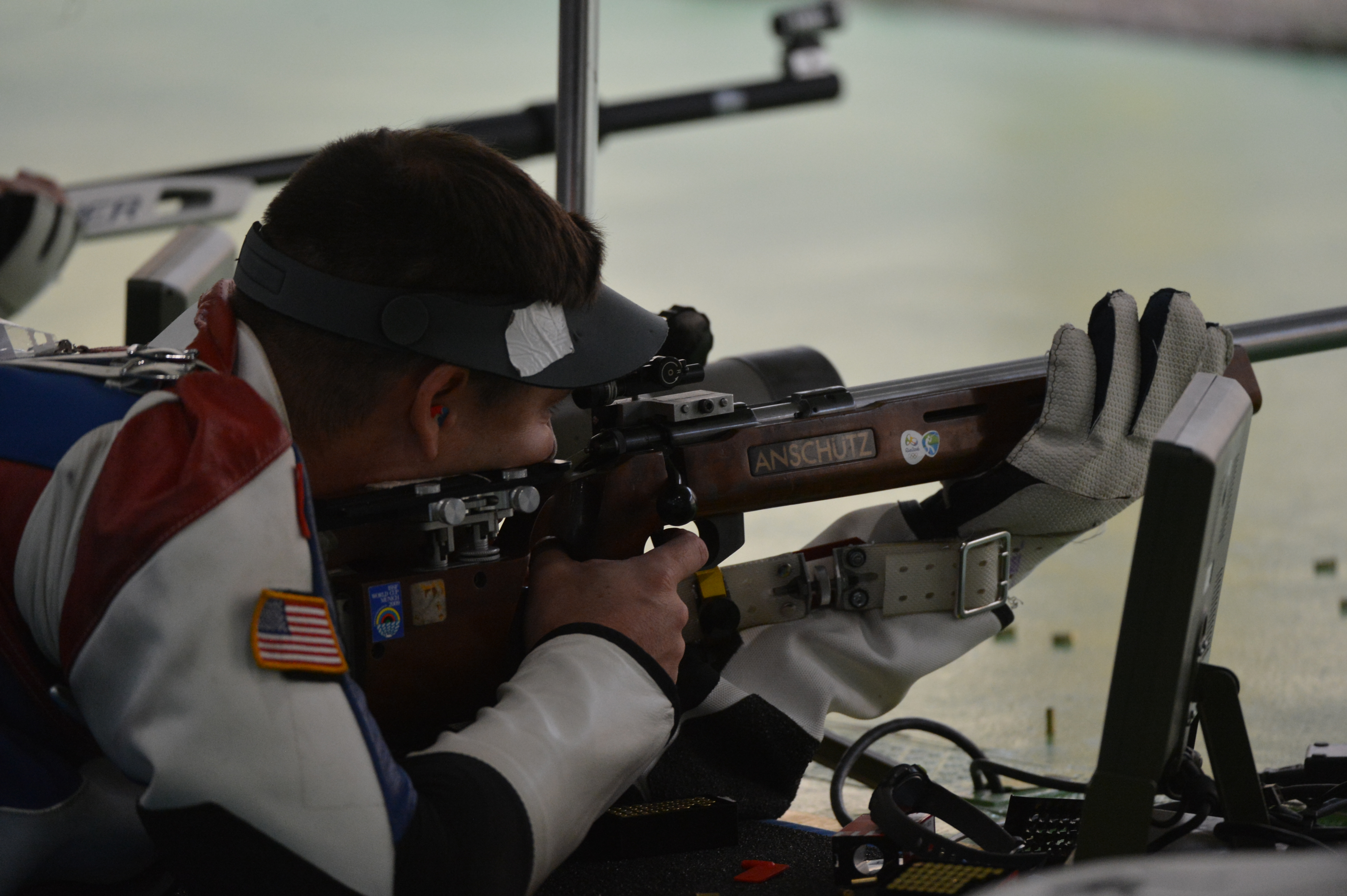 Two-time Olympian Sgt. 1st Class Michael McPhail, a native of Darlington, Wisconsin, stationed at Fort Benning, Georgia with the U.S. Army Marksmanship Unit, shoots to a 19th place finish in the men's 50-meter prone rifle shooting event Aug. 12 at the 2016 Rio Olympic Games in Rio de Janeiro. U.S. Army U.S. Army photo by Tim Hipps, IMCOM Public Affairs